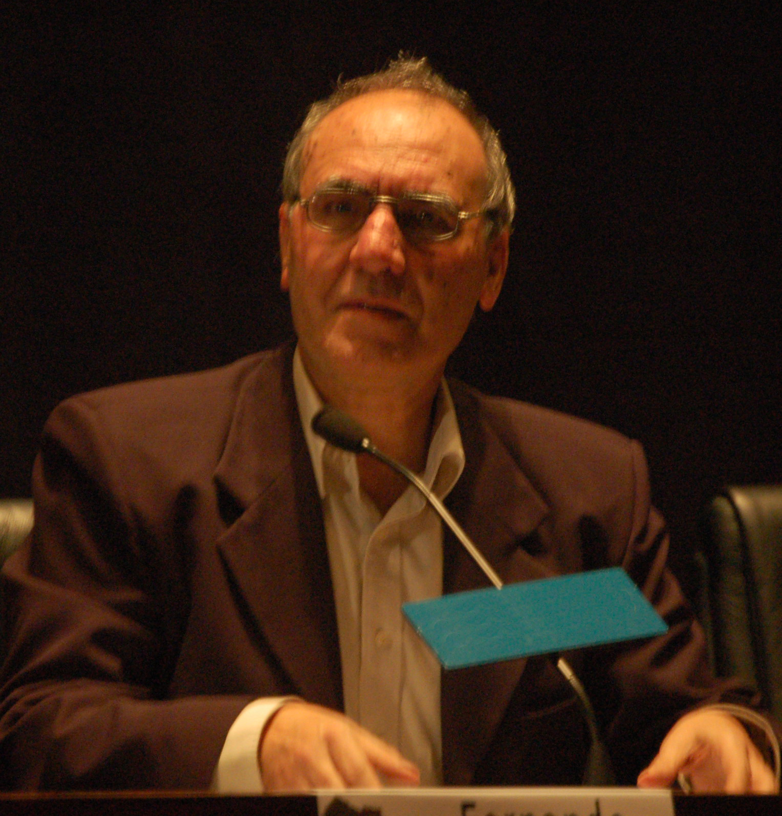 Fernando Venânciois a Portuguese born writer, intellectual, literary critic, linguist and academic.